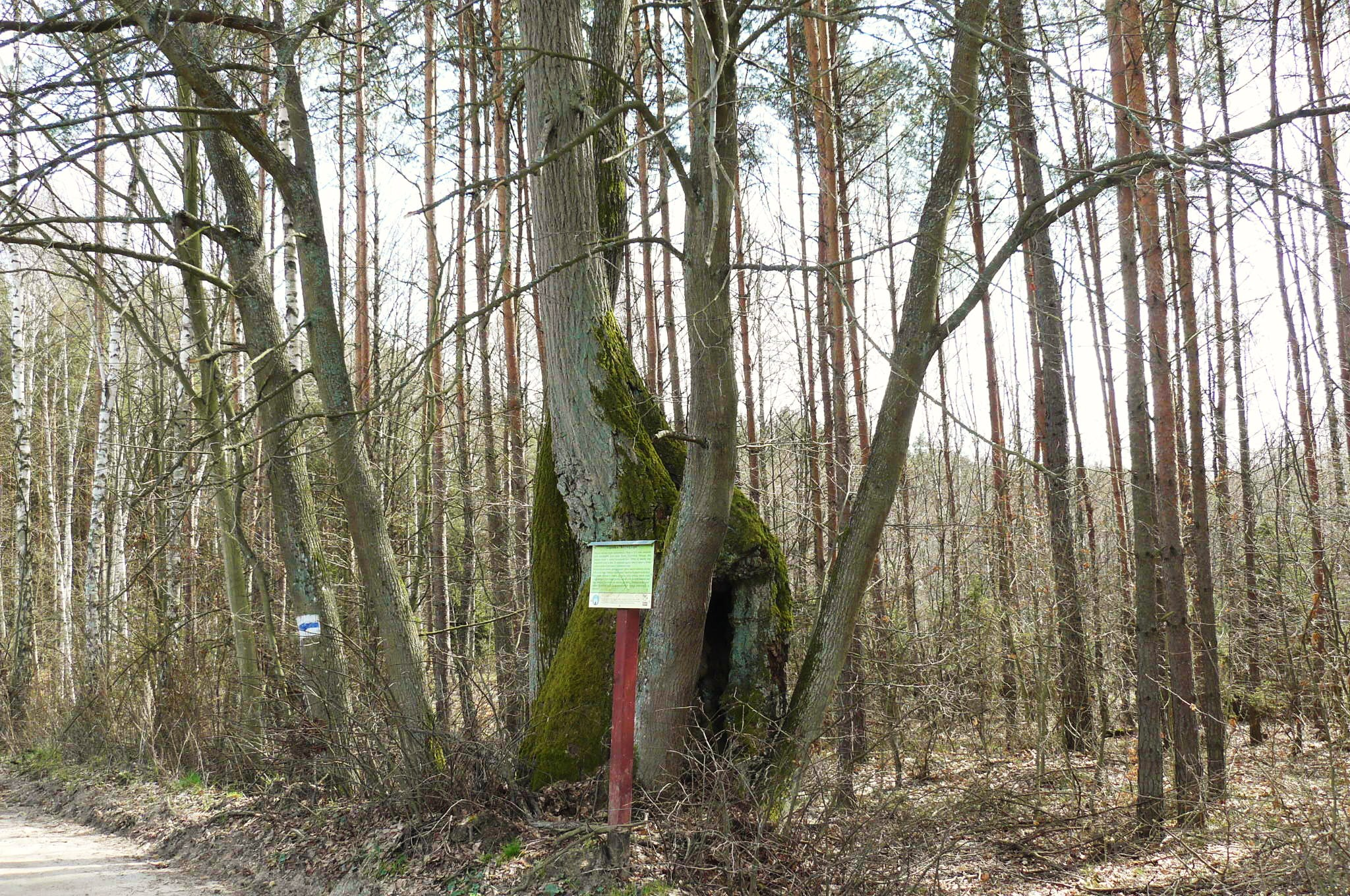 Tilia Cordata in Wierzchucin. PL.